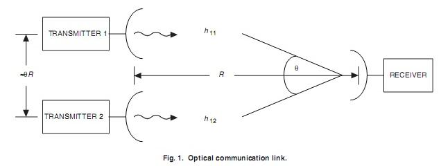 optical communication